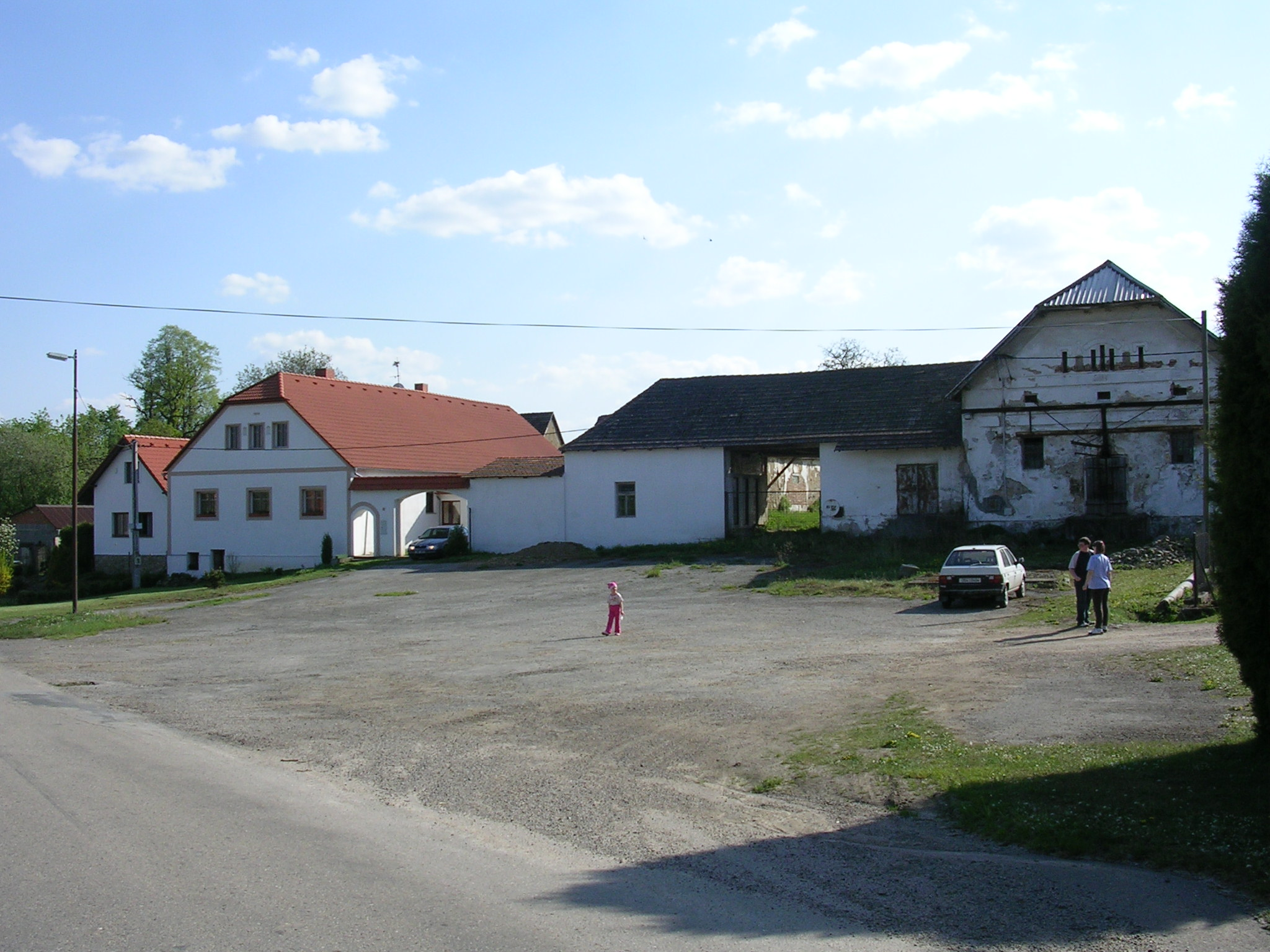 Postupice-Čelivo, Central Bohemian Region, the Czech Republic.